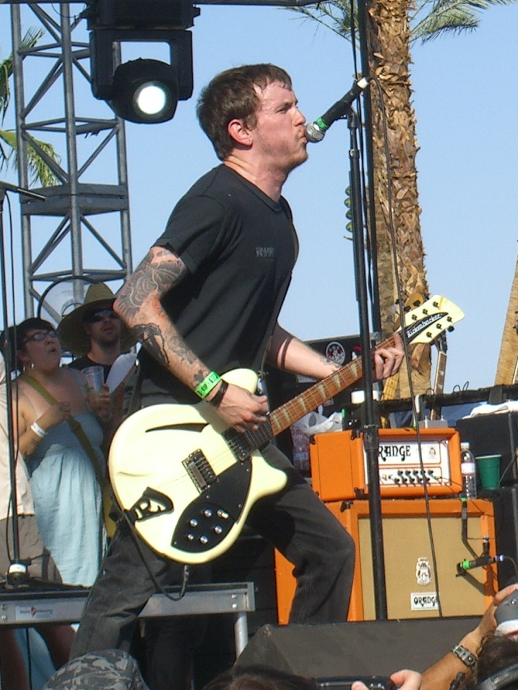 Against Me! singer/guitarist Tom Gabel performing at the 2007 Coachella Valley Music and Arts Festival.